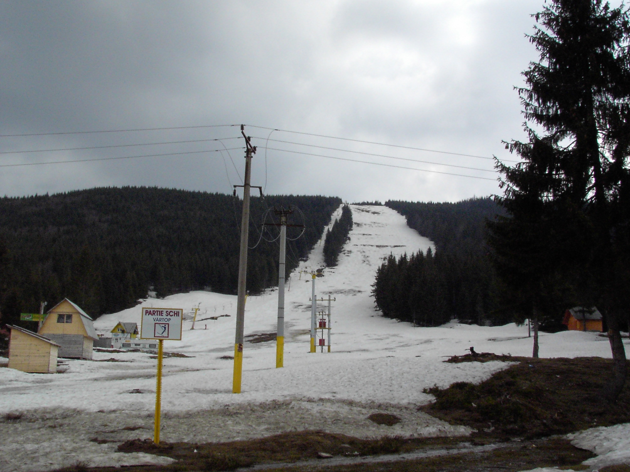 The old ski slope at Arieseni